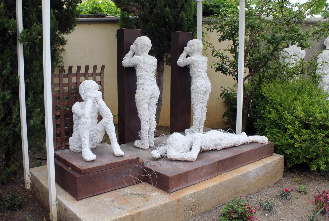 Works by Jorge Rando in San Ramón Nonato Museum.